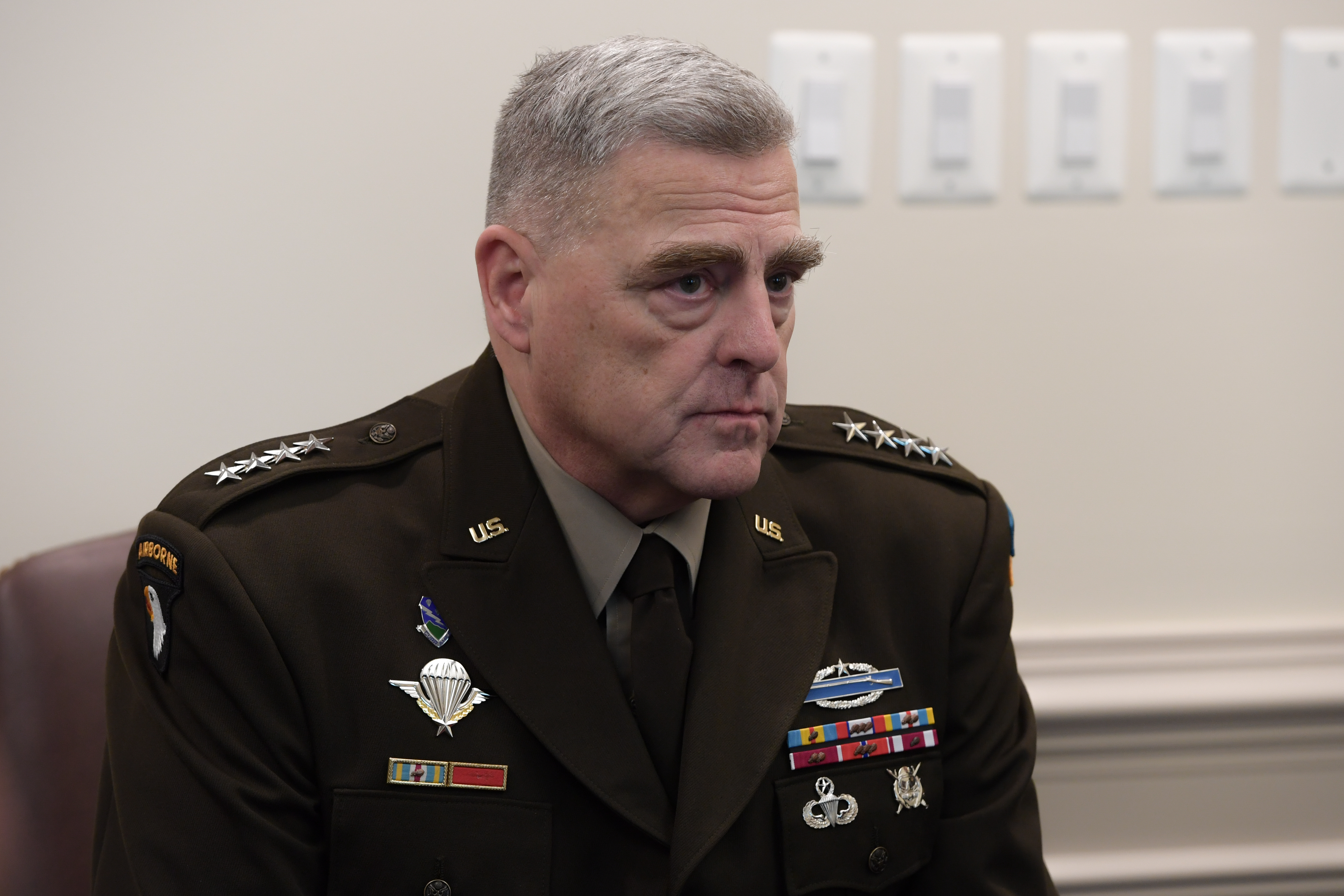 Chairman of the Joint Chiefs of Staff U.S. Army Gen. Mark A Milley during an office call at the Pentagon, in Arlington, Va., Oct. 31, 2019. Gen. Milley was in an office call visit with Medal of Honor Recipient U.S. Army Master Sgt. Matthew O. Williams and family. (U.S. Army Photo by Sgt. Keisha Brown)